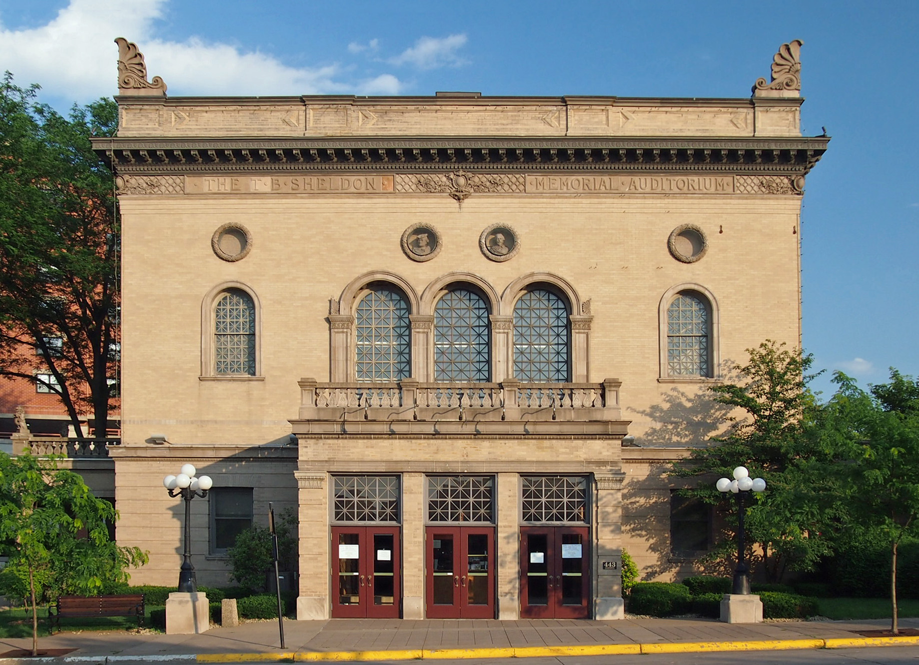 T.B. Sheldon Memorial Auditorium: 443 West 3rd Street, Red Wing, Minnesota, USA. Shot from the northwest near sundown in mid-summer.